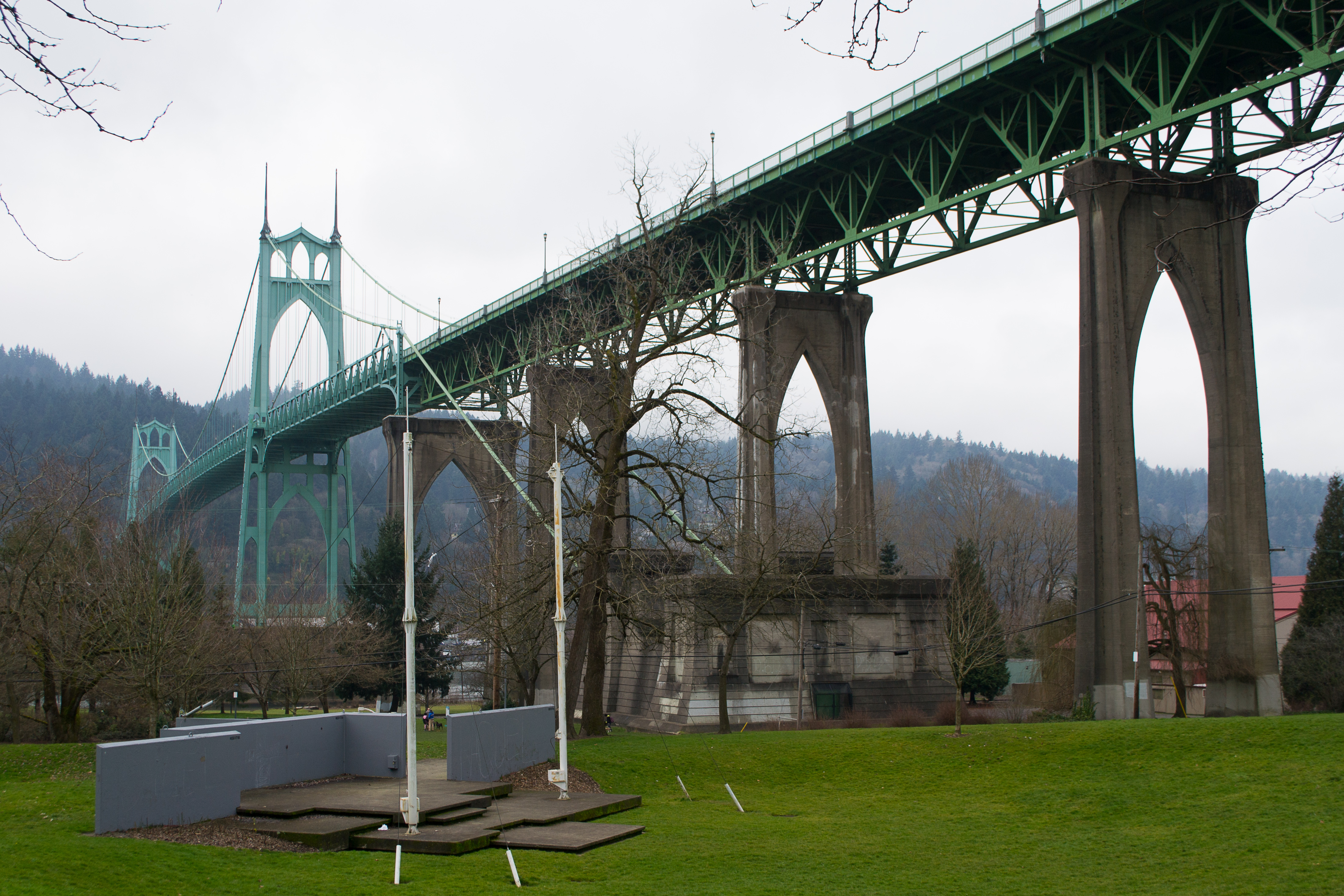 A view of the St. Johns Bridge from Cathedral Park